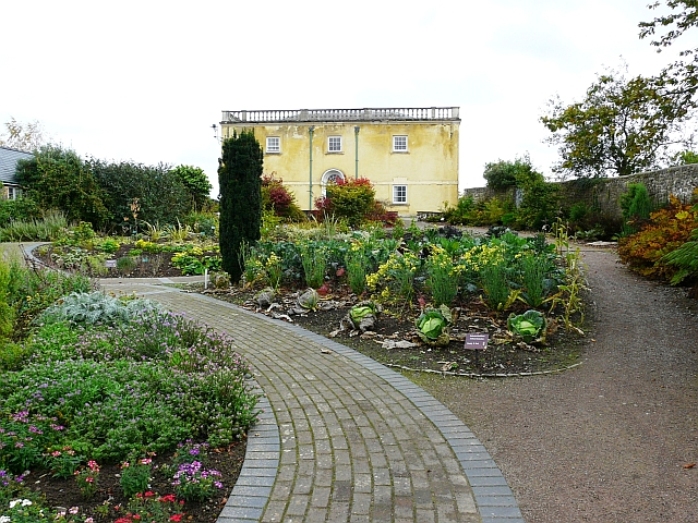 Wallace Garden and Principality House This area at the National Botanic Garden of Wales is used to illustrate plant breeding and genetics. It contains food crops and garden plants which have been developed by selective breeding .